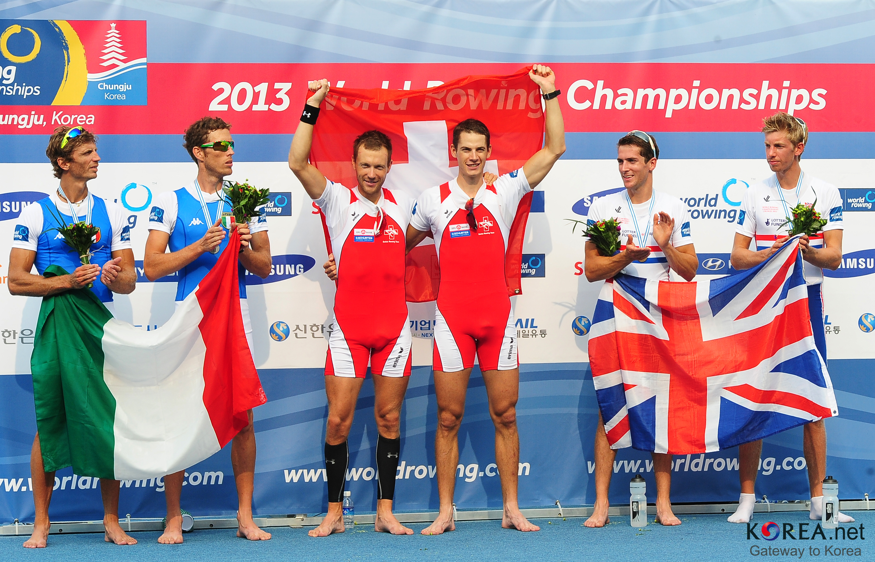 2013 Chungju World Rowing Championships